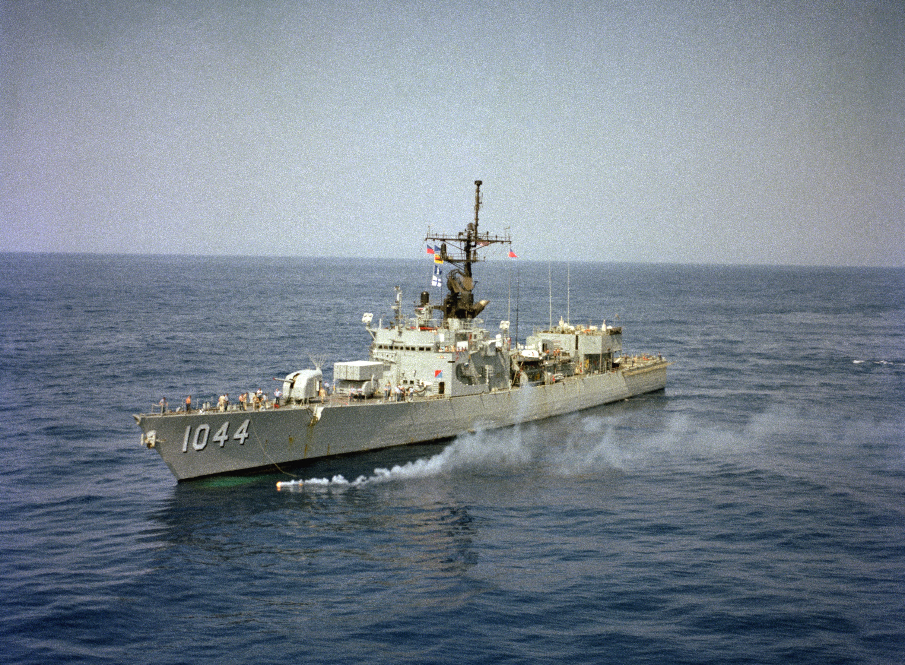 A port bow view of the frigate USS Brumby (FF-1044) underway during the NATO Exercise DISTANT DRUM on 18 May 1983.